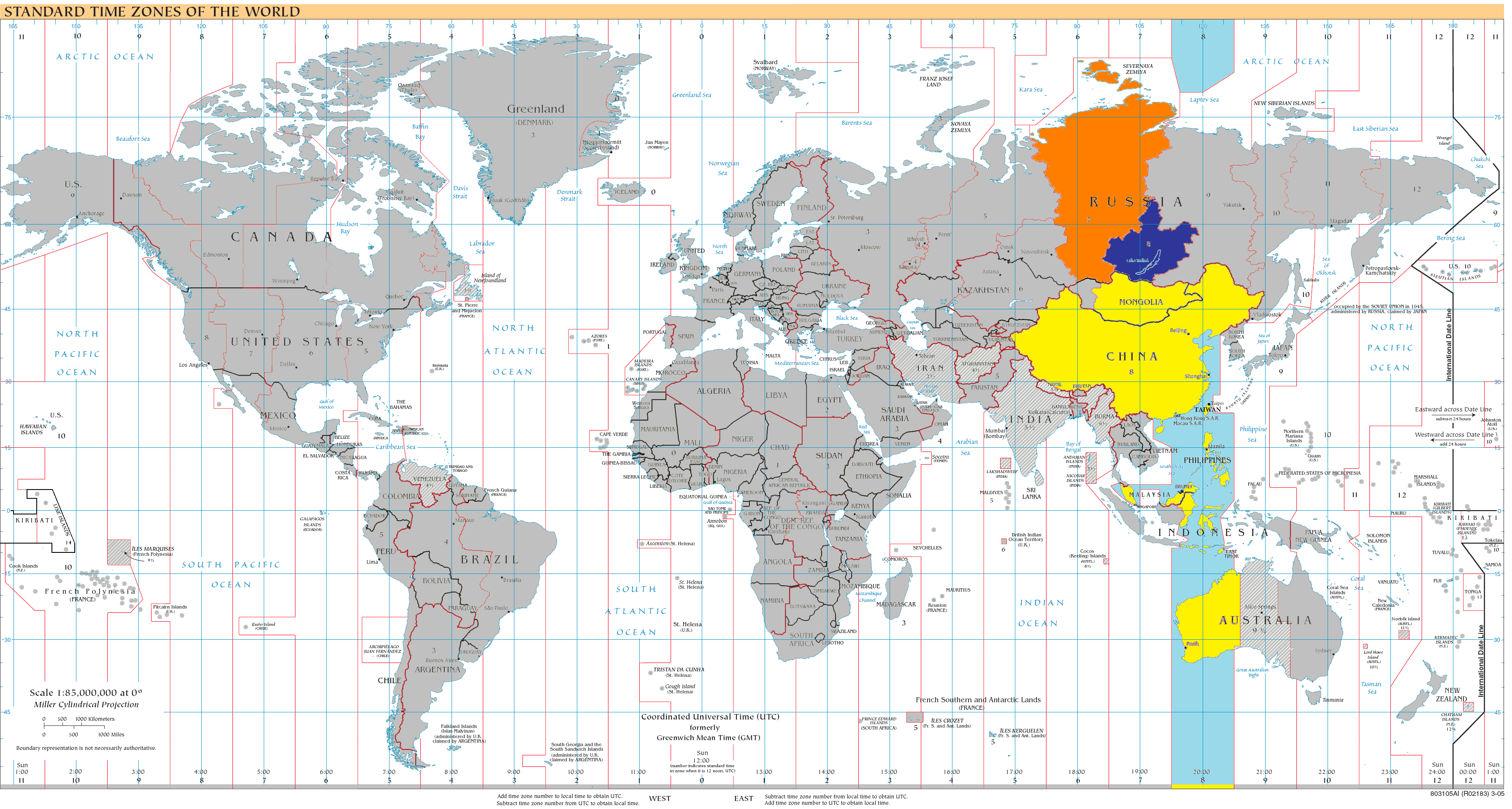 World map of time zones as of 2008, on the Miller Cylindrical Projection and with highlighted UTC+8 zone. Dark Blue - UTC+8 during Northern Winter / Southern Summer Orange - UTC+8 during Northern Summer / Southern Winter Yellow - UTC+8 all year round Light Blue - UTC+8 sea areas